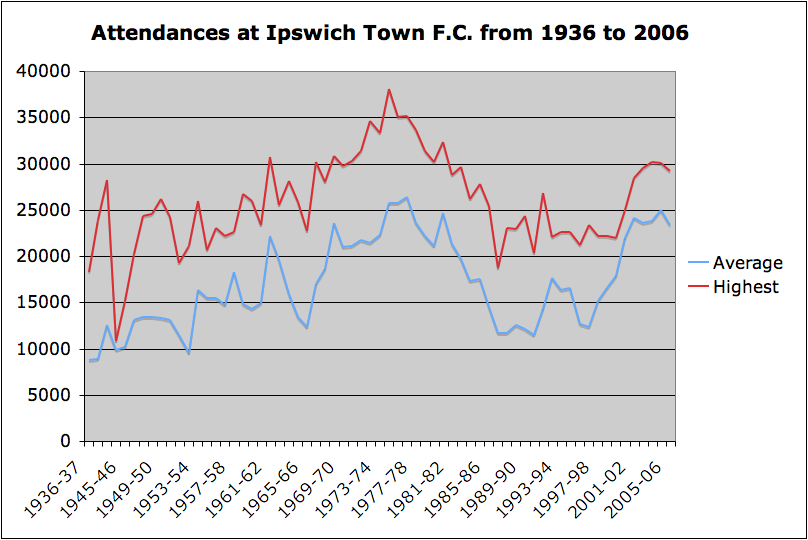 Graph of attendances at Ipswich Town Football Club, data from here